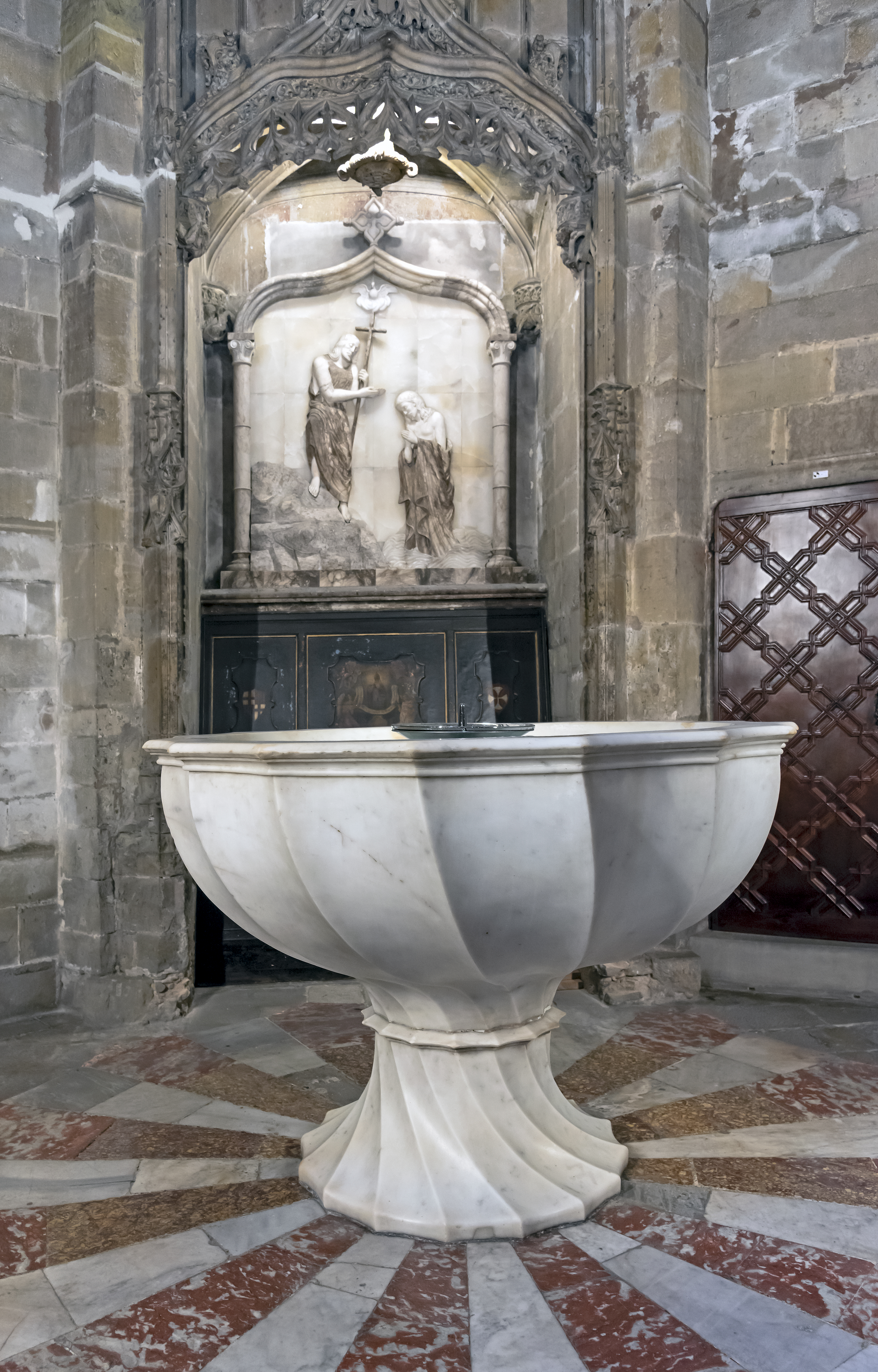 The Cathedral of the Holy Cross and Saint Eulalia in Barcelona. The baptismal font is made in white marble of Carrara, carved by the Florentine artist Onofre Julià in 1433.